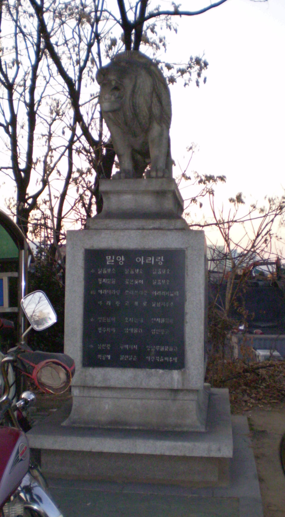 Statue commemorating the Miryang arirang near Miryang Station in Miryang, Gyeongsangnam-do, South Korea.